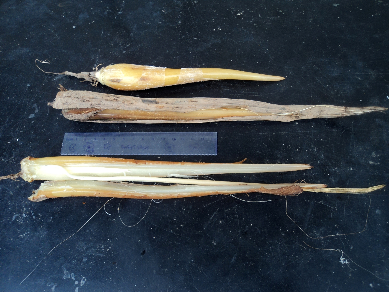 Palm_root, boiled, edible,Tamil Nadu,India